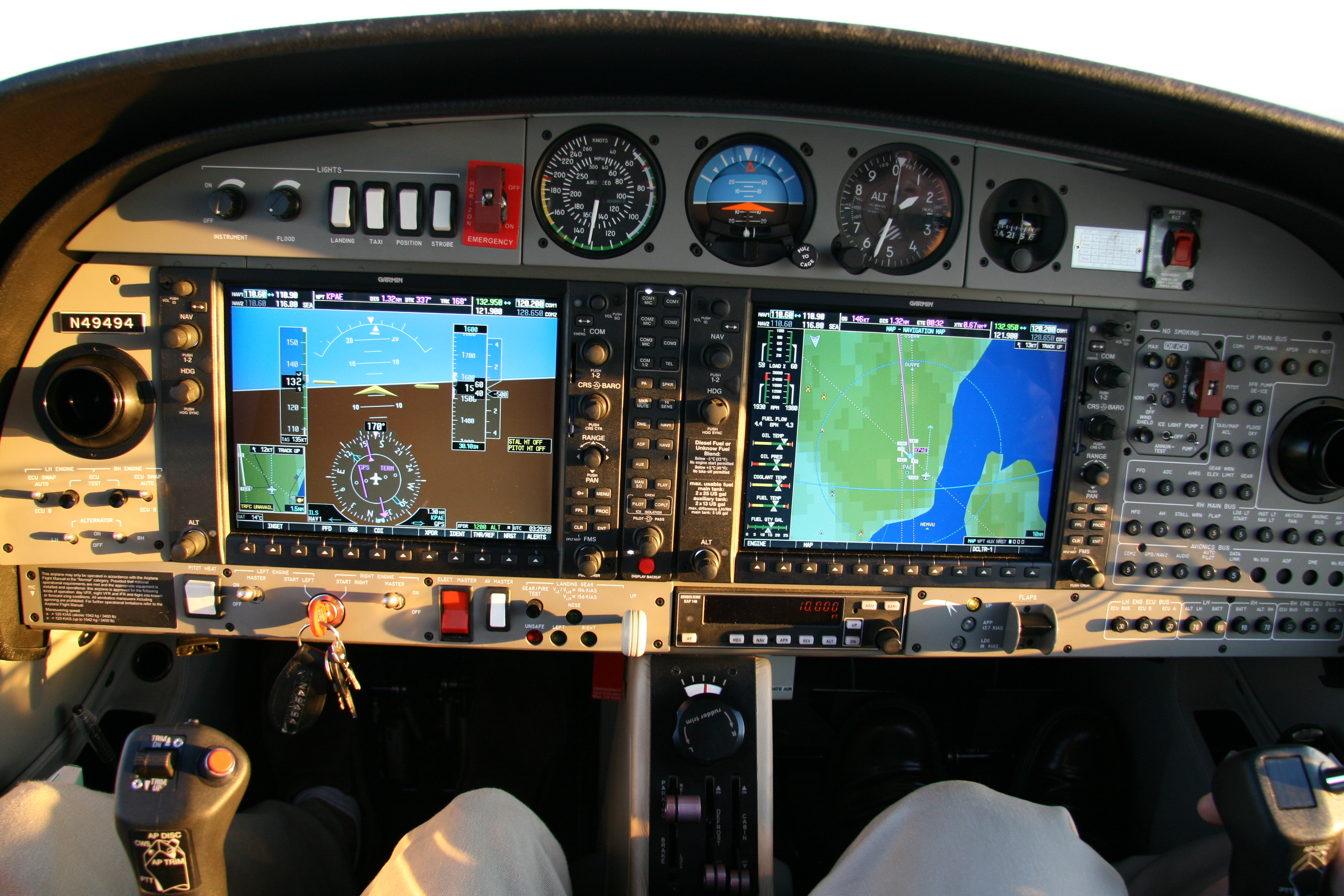 Garmin G1000 panel of Diamond DA-42 Twin Star, N49494, based @ KBFI - Seattle, WA